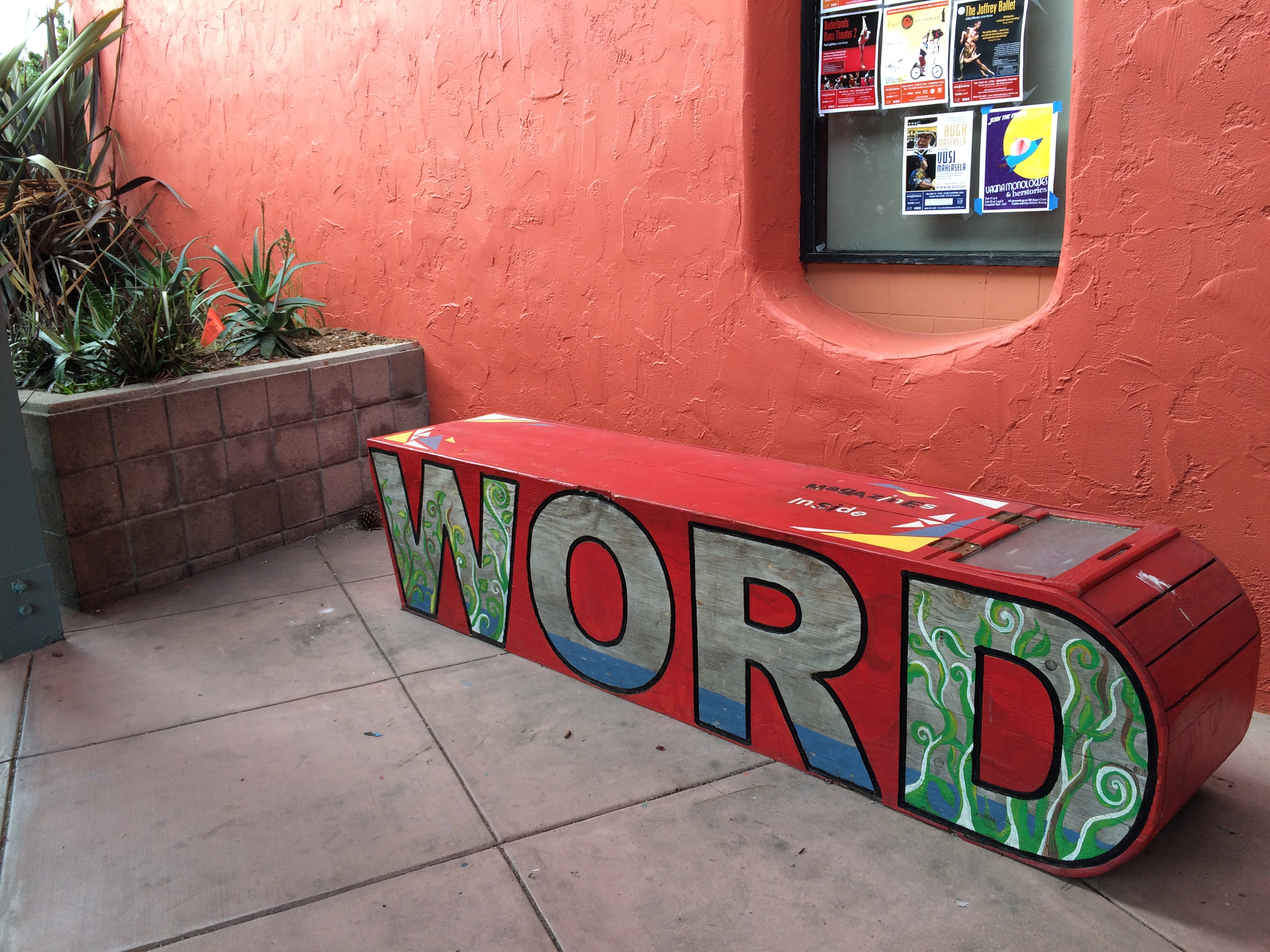 The WORD Magazine bench near the Isla Vista Theater. This is a distribution spot for the UCSB student produced magazine about Isla Vista arts and culture.